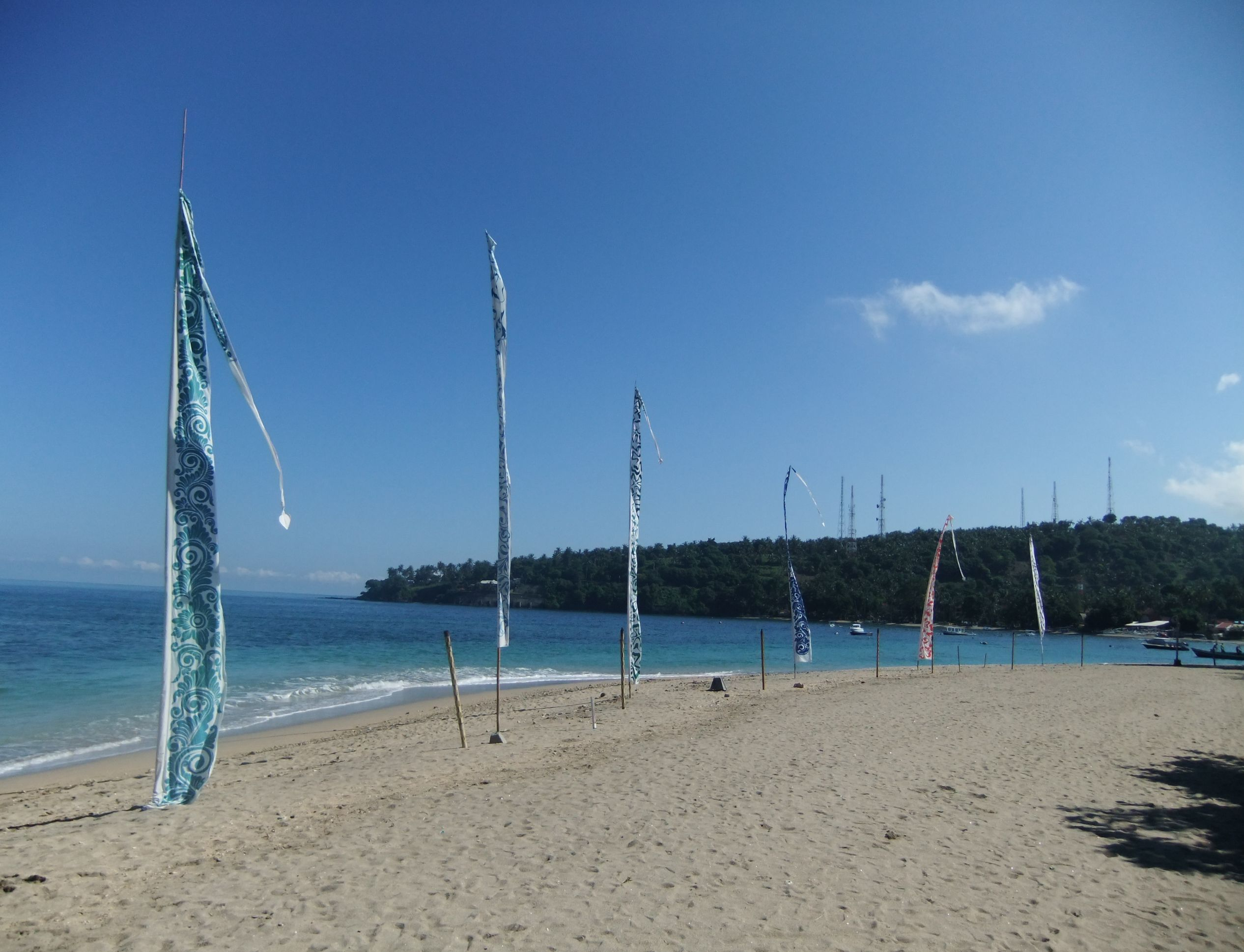 View of part of Senggigi Beach by Senggigi Beach Hotel